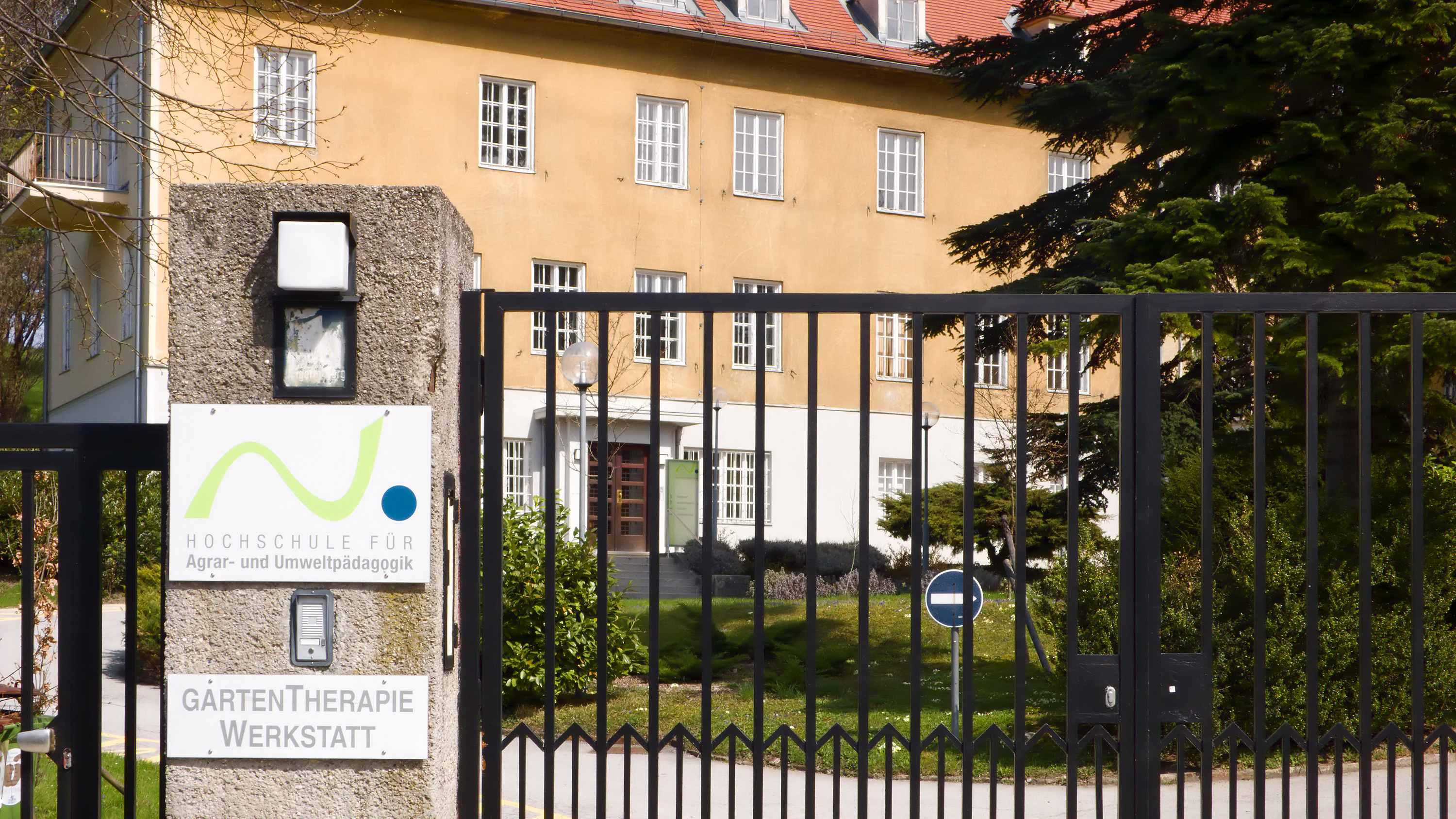 Villa Blum in Vienna Hietzing